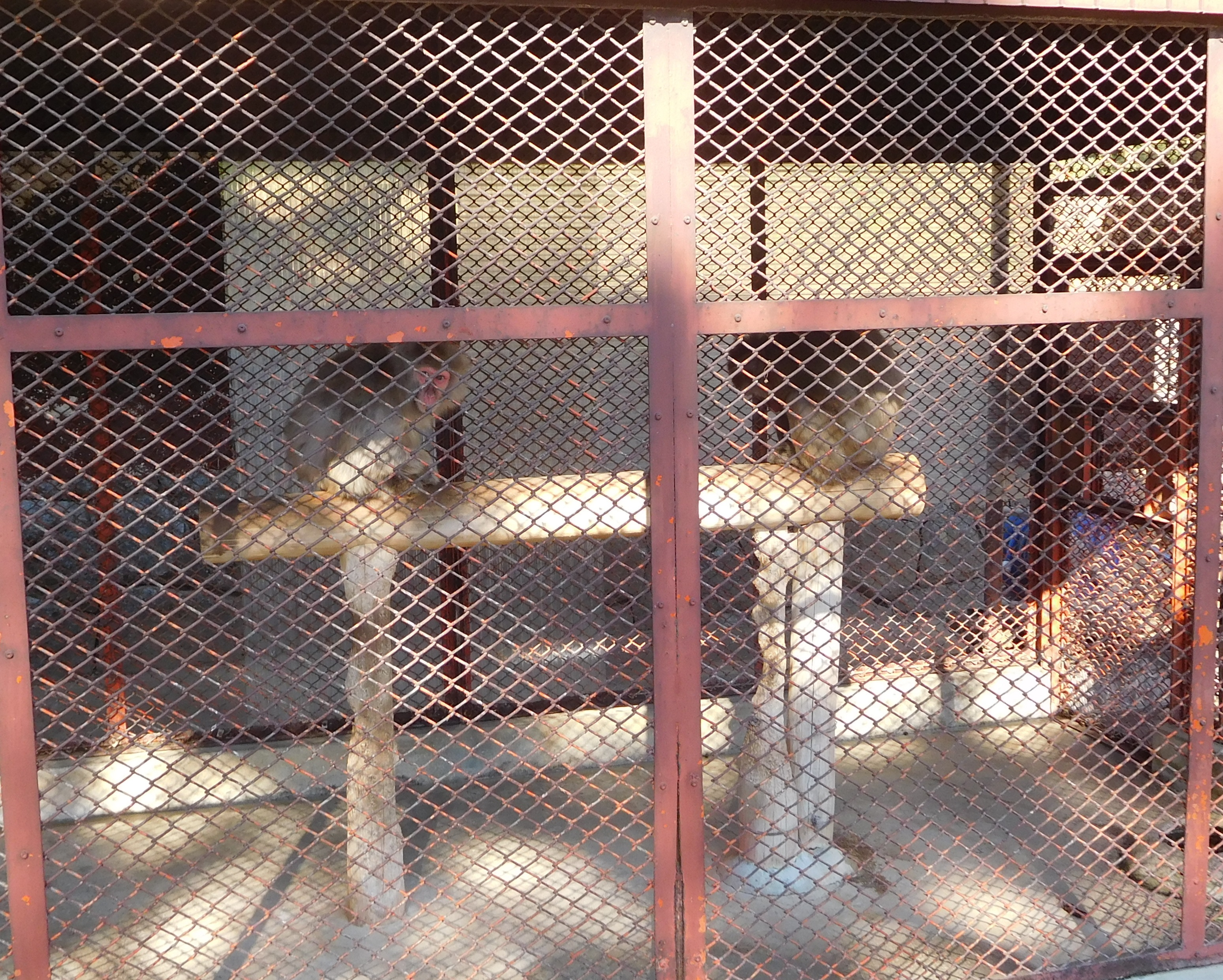 Japanese macaque in Tsuchiura, Ibaraki, Japan.